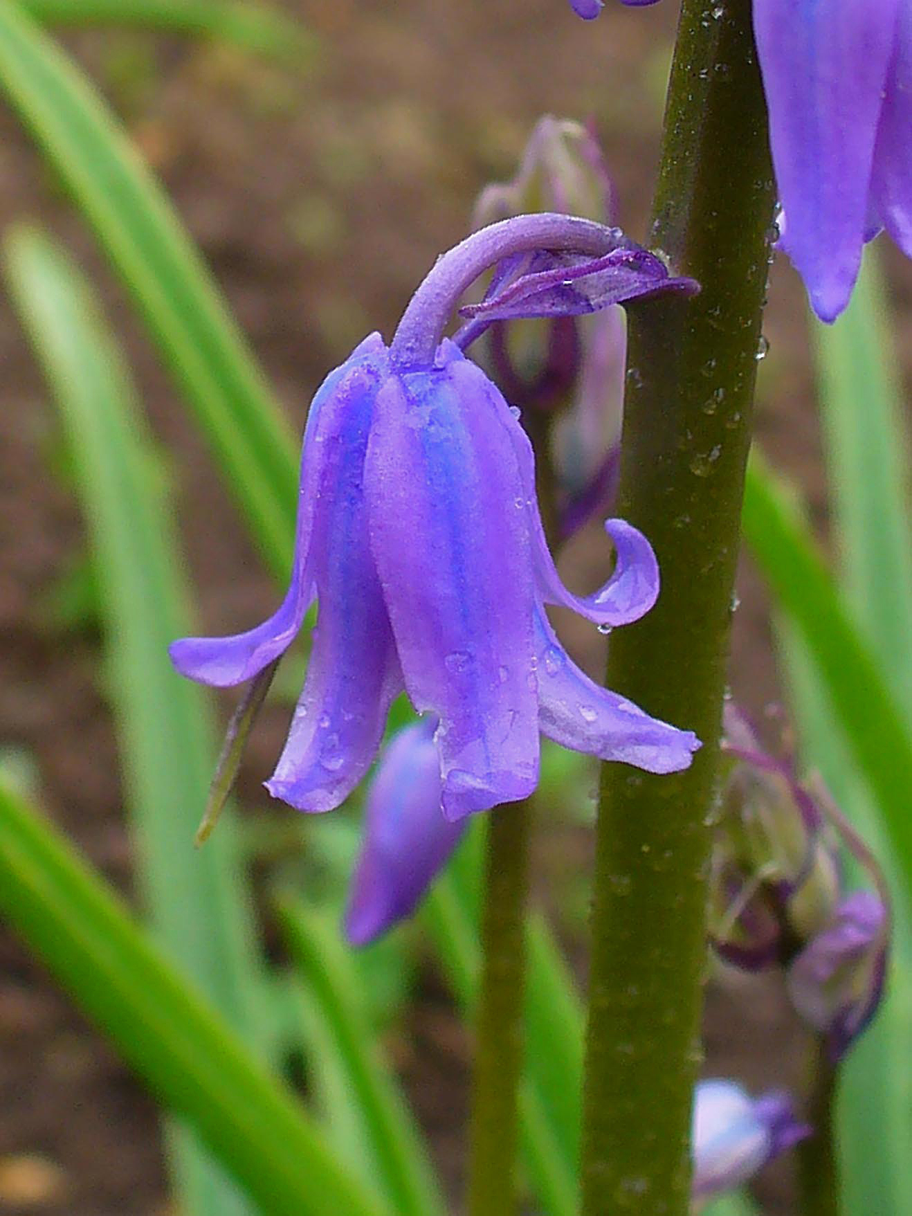 Hyacinthoides non-scripta, Hyacinthaceae, Common Bluebell, flower. The fresh, blooming haulm is used in homeopathy as remedy: Agraphis nutans (Agra.)